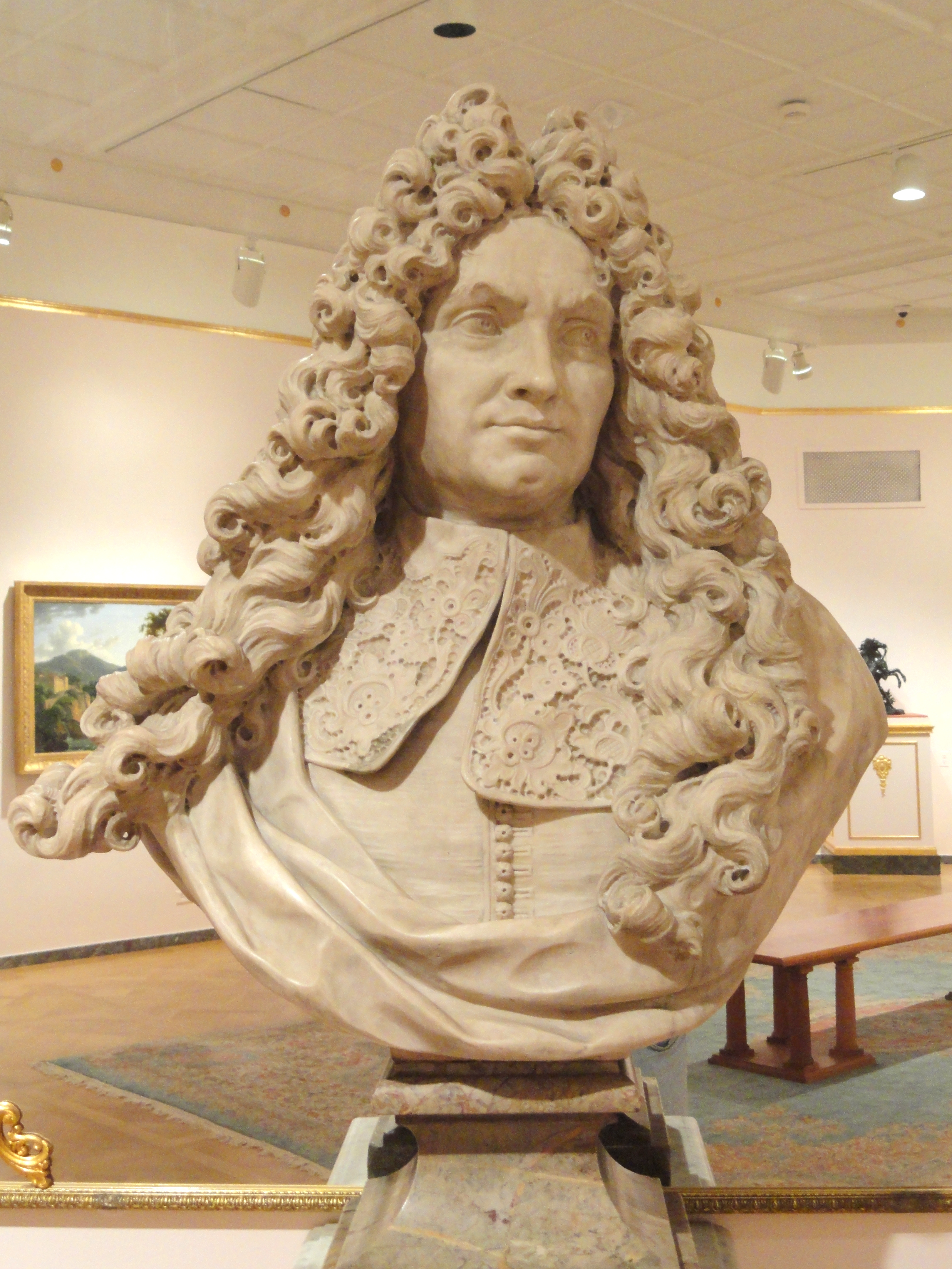 Exhibit in the Museum of Fine Arts, Springfield, Massachusetts, USA. This artwork is old enough so that it is in the public domain.